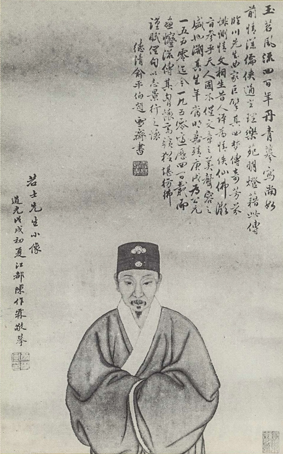 湯顯祖, Tang Xianzu (1550-1616), Ming poet and dramatist, author of Peony pavilion 牡丹亭